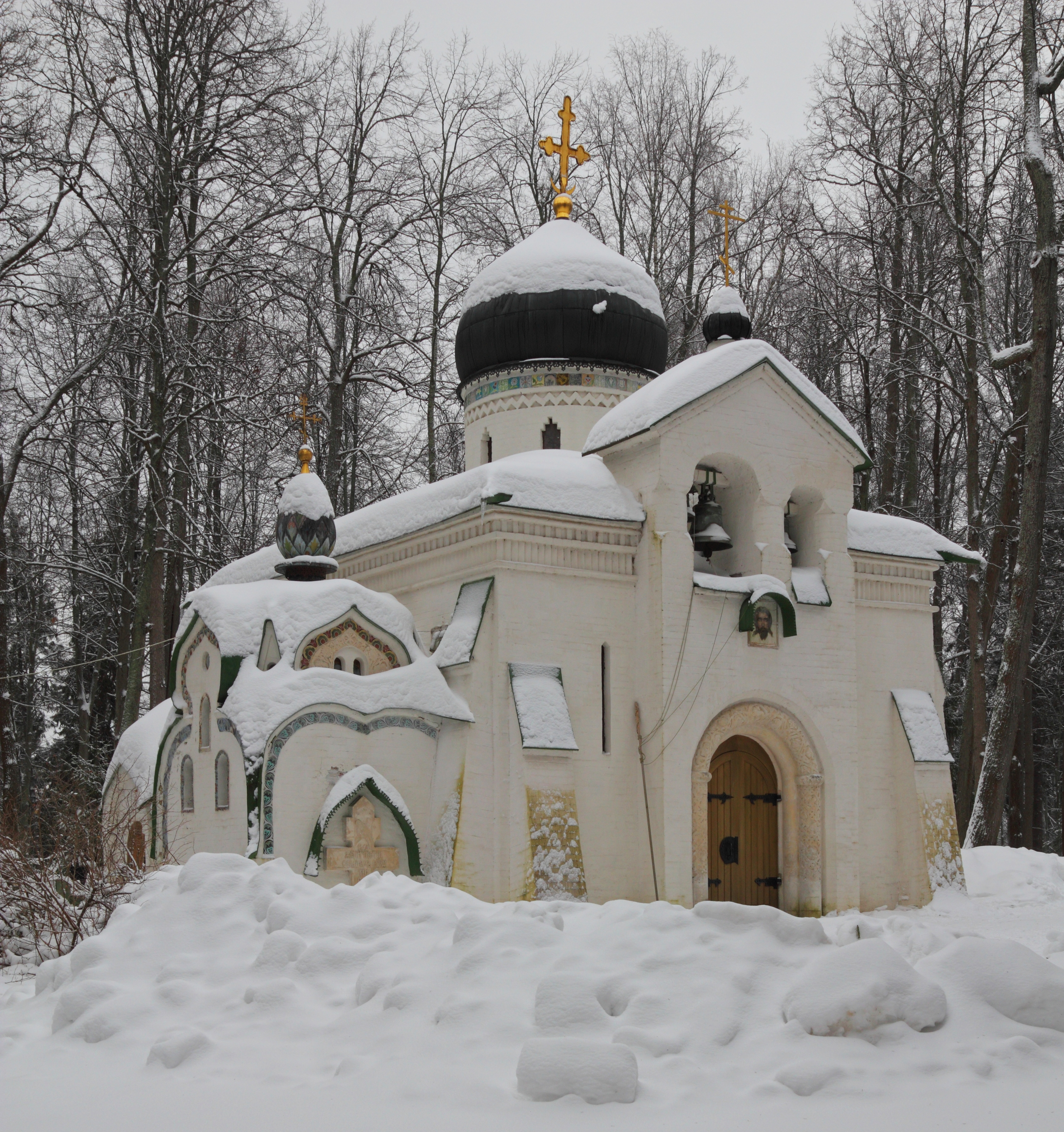 Abramtsevo museum-reserve in Moscow Oblast, Russia. Church of the Holy Mandilion.